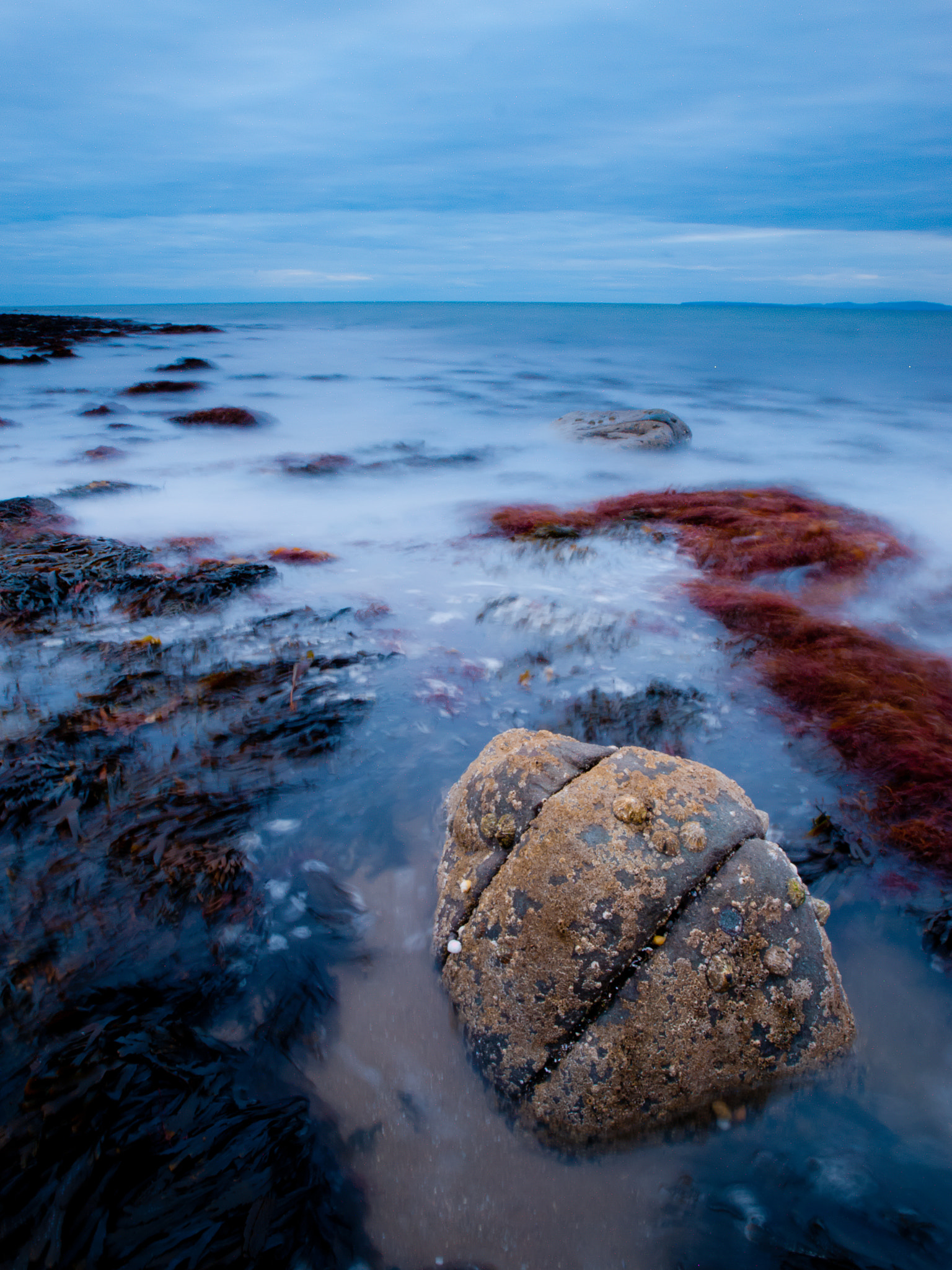 500px provided description: Long exposure of the tide coming in on the beach at Shell Island, Wales [#portfolio ,#favourites ,#portfolio-best ,#holiday-2010-llandanwg]